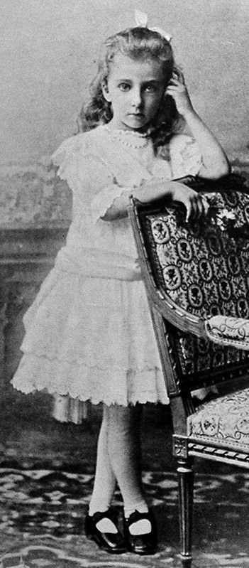 Photograph of Princess Nadezhda, daughter of Tsar Ferdinand of Bulgaria and Tsarina Marie-Louise